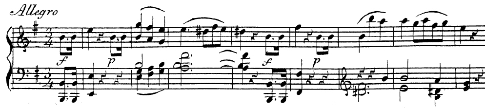 Franz Danzi's Horn Sonata No. 2 in E minor, Op. 44. — First bars of the 1st mvt. (piano).